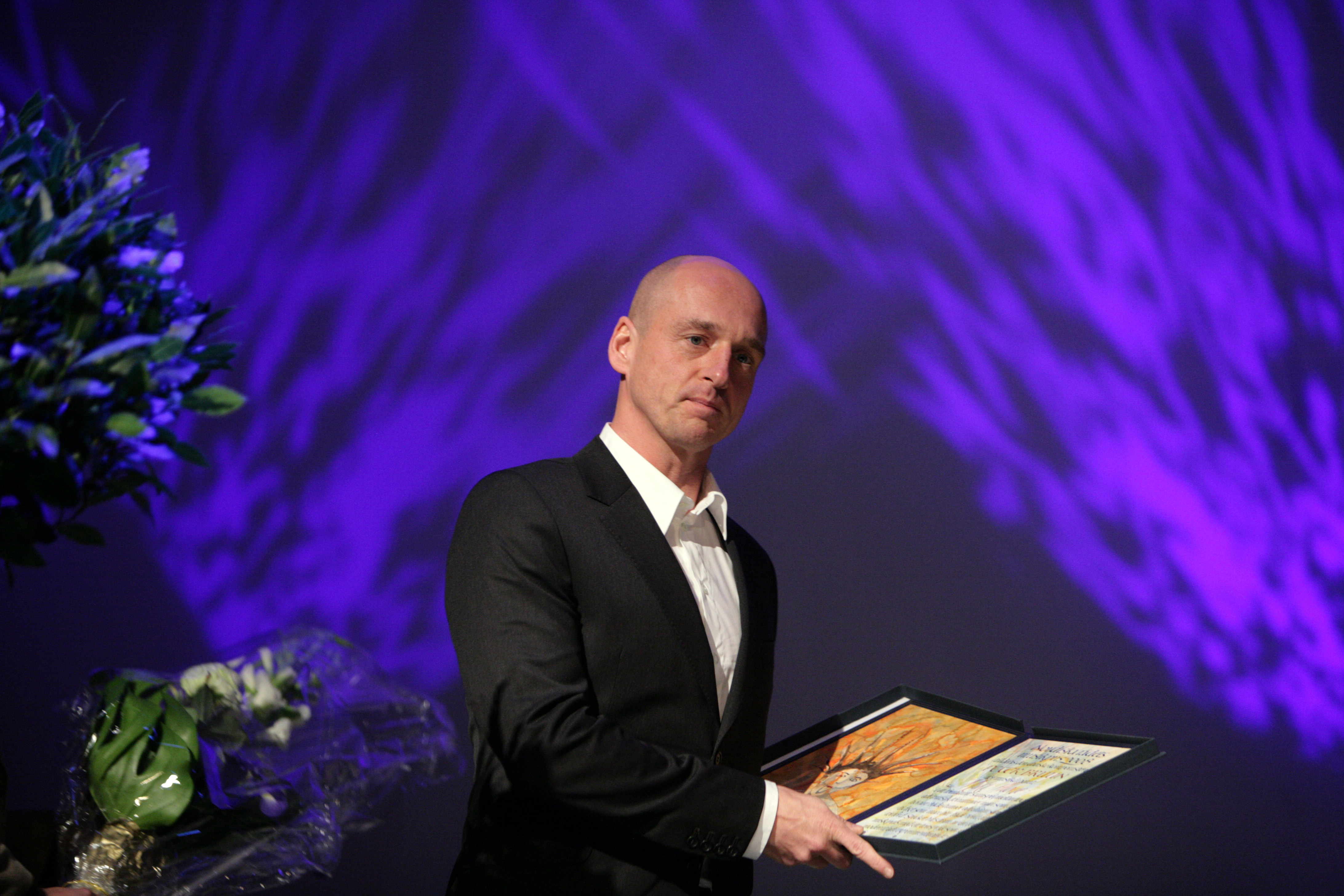 Vinder af Nordisk Råds musikpris 2008 Keywords: Music Prize